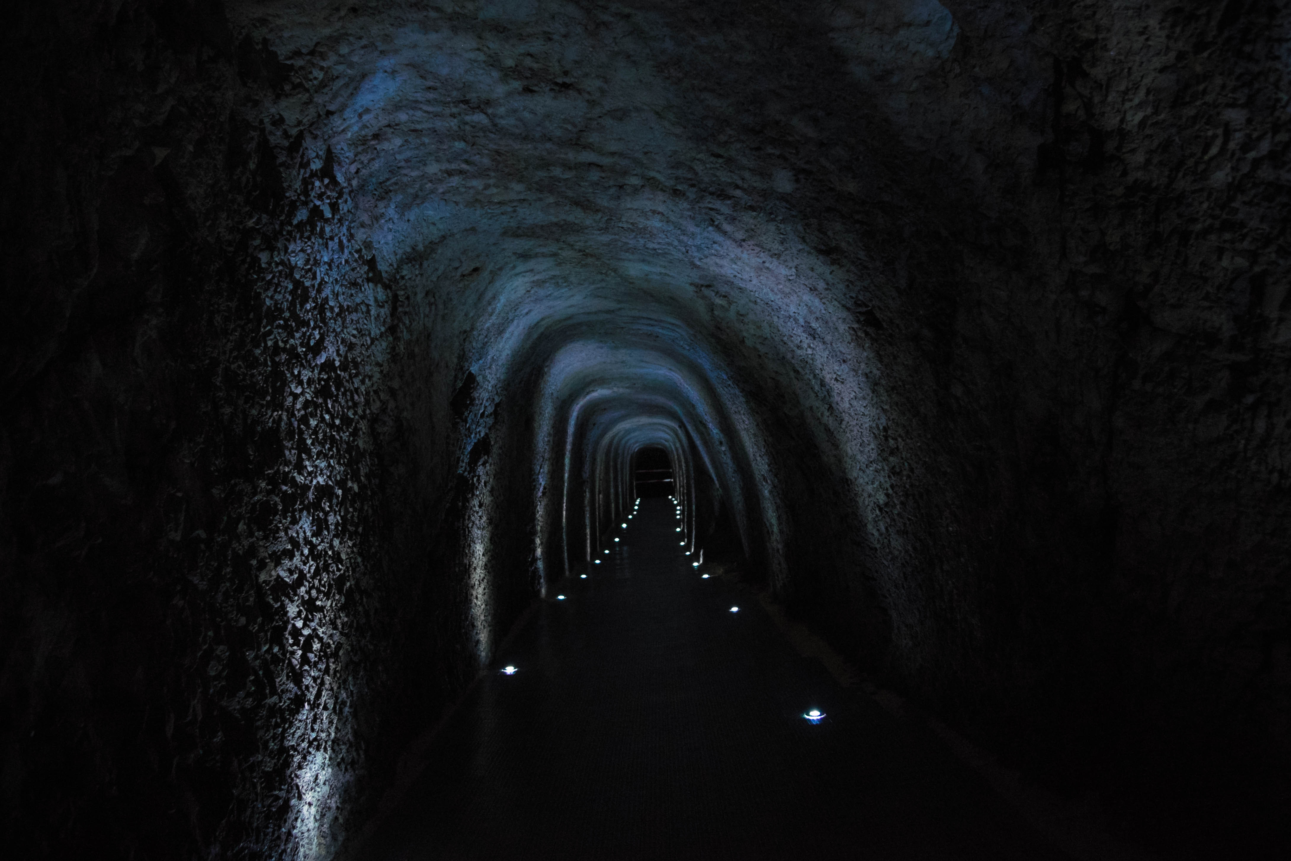 Inside of the tunnel of Ferraro, Avezzano, Abruzzo, Italy